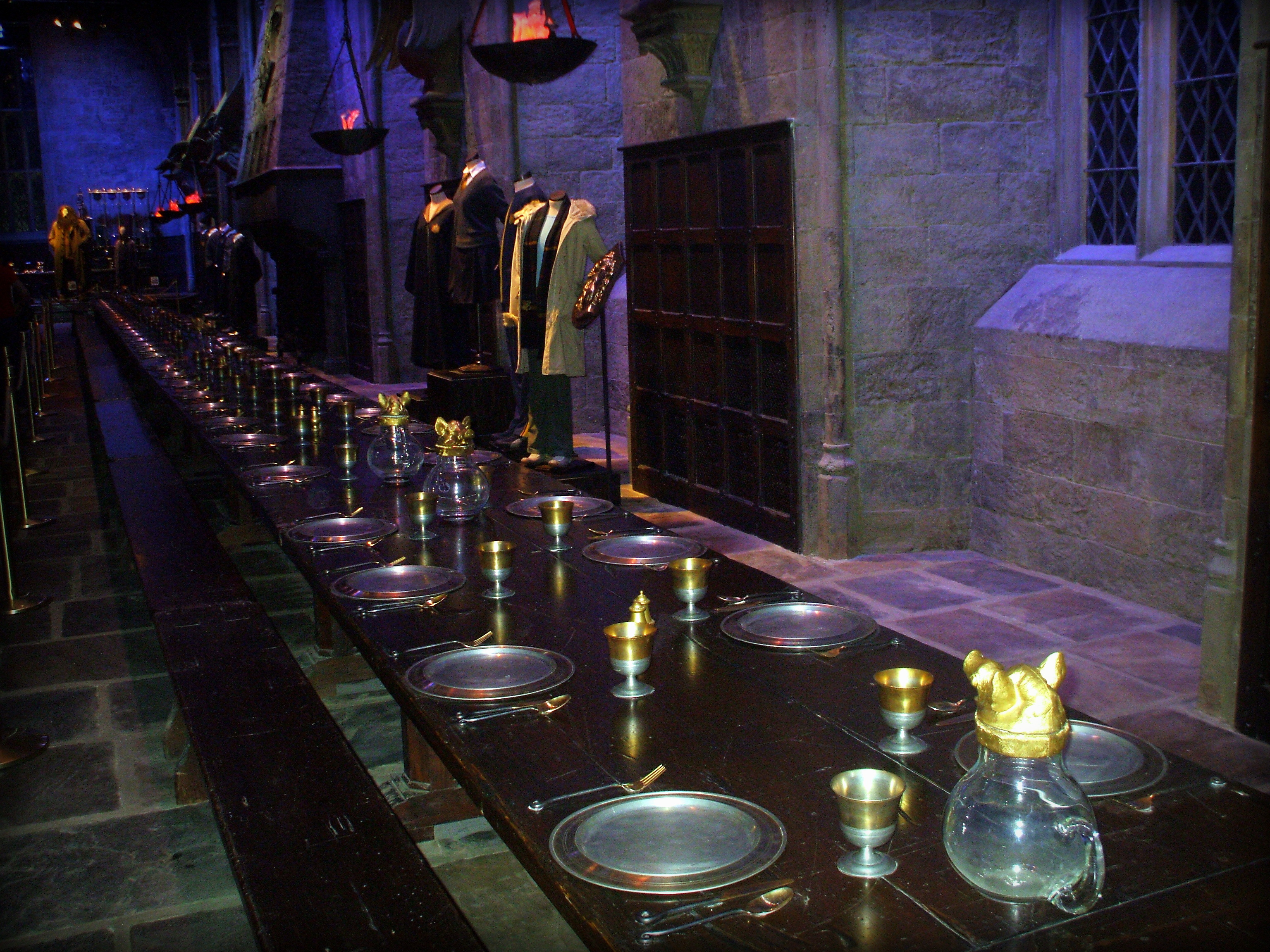 The Great Hall, Hogwarts film set at Warner Bros. Studios, Leavesden, UK